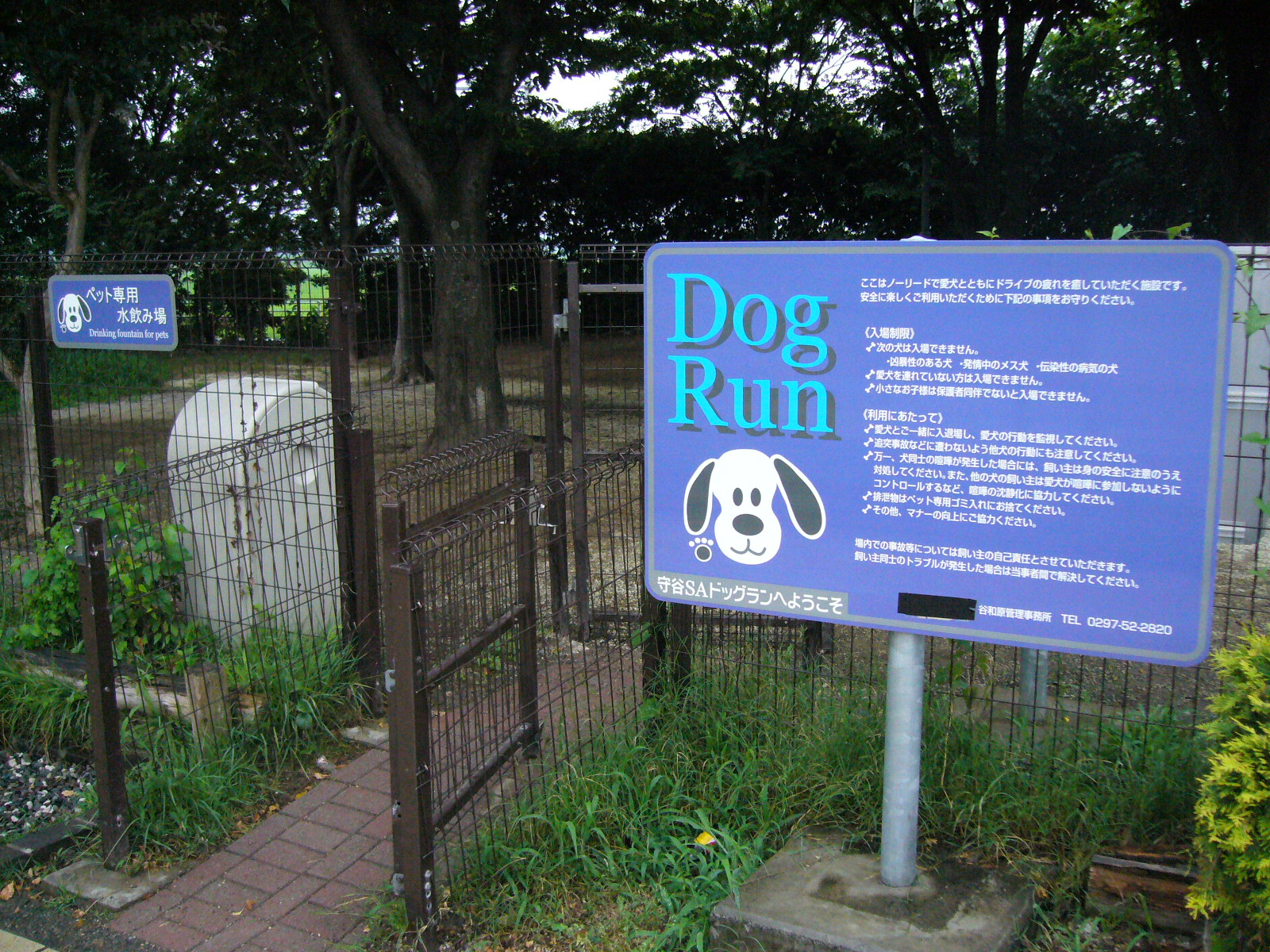 Dog run at Moriya Service Area on the Joban Expressway, in Moriya City, Ibaraki Prefecture, Japan